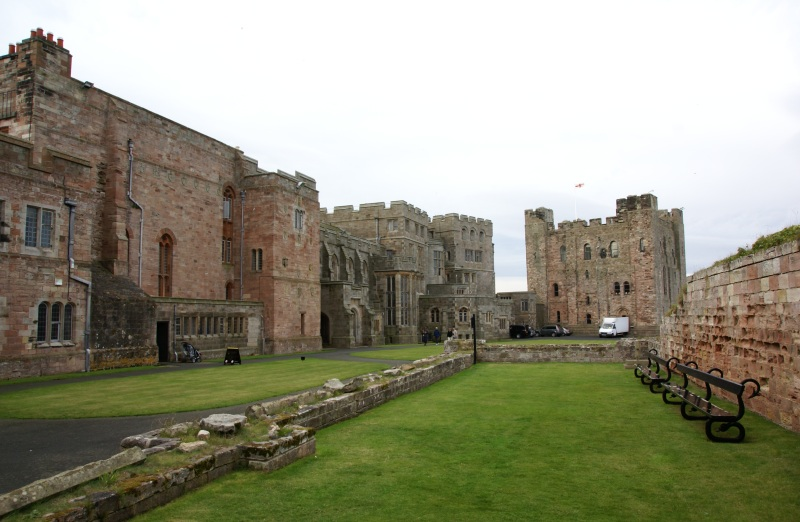 Bamburgh Castle, Northumberland, England. Inner Ward looking west.